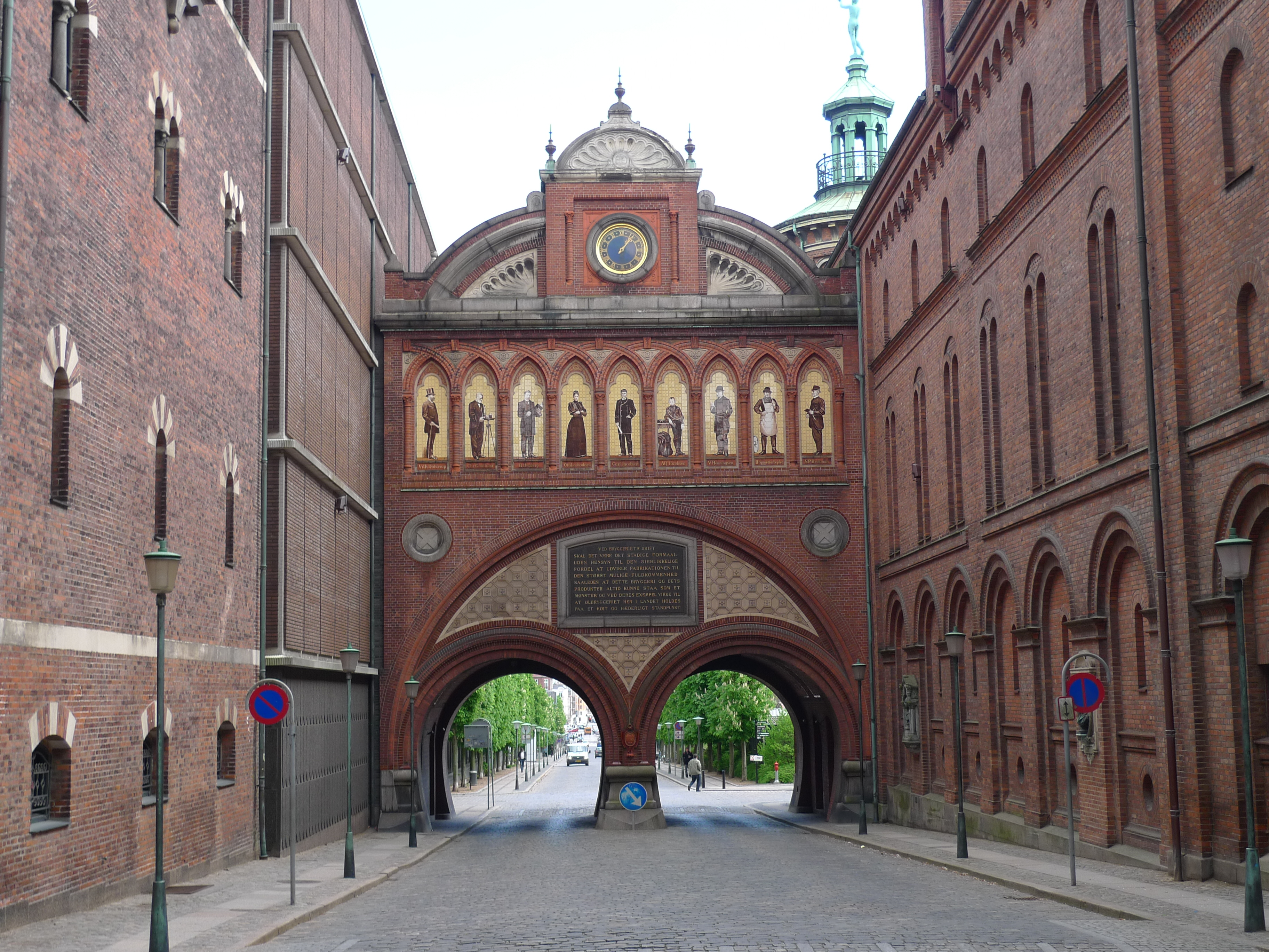 The Dipylon gate in the Carlsberg area of Copenhagen, Denmark